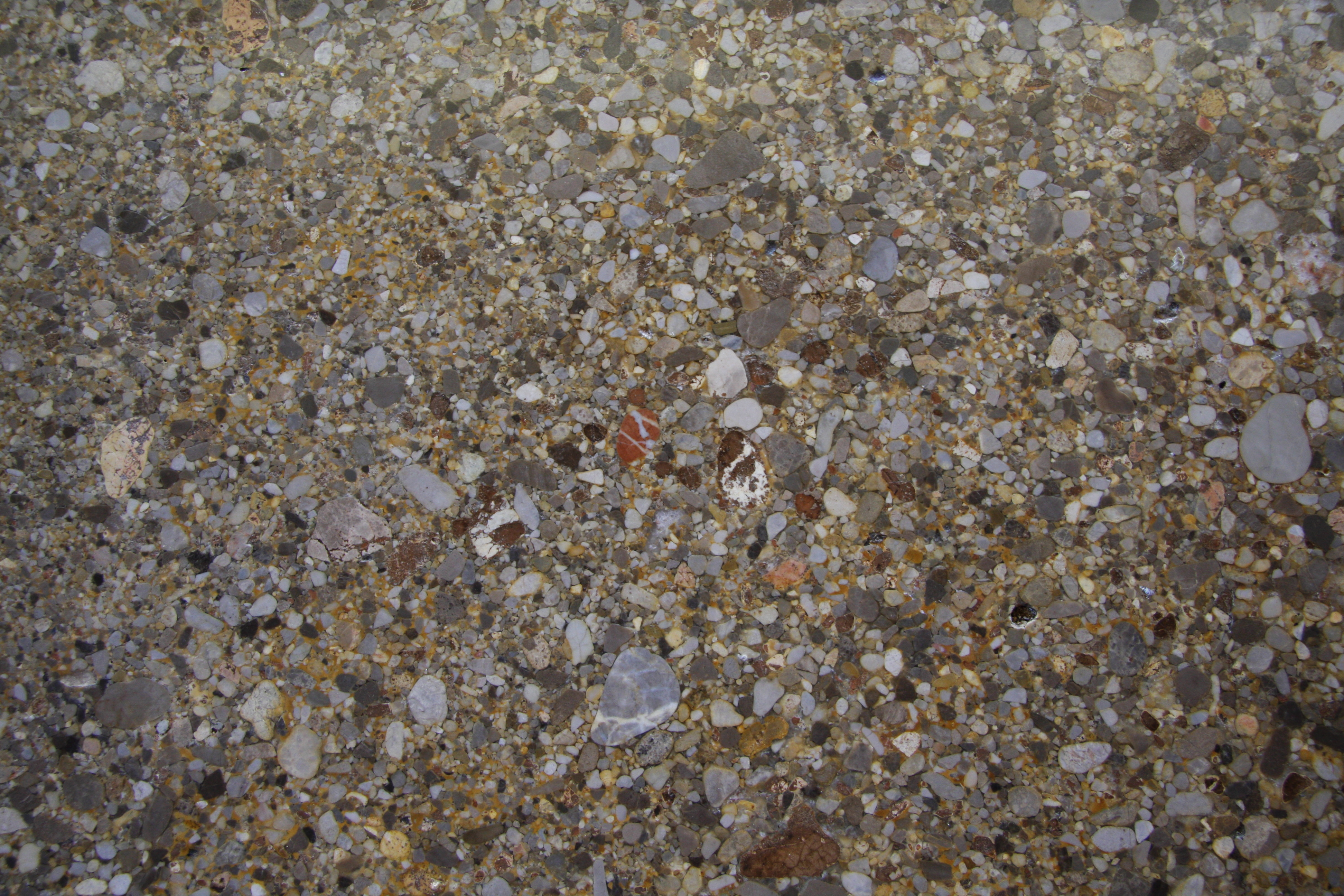 Conglomerate from Lindabrunn